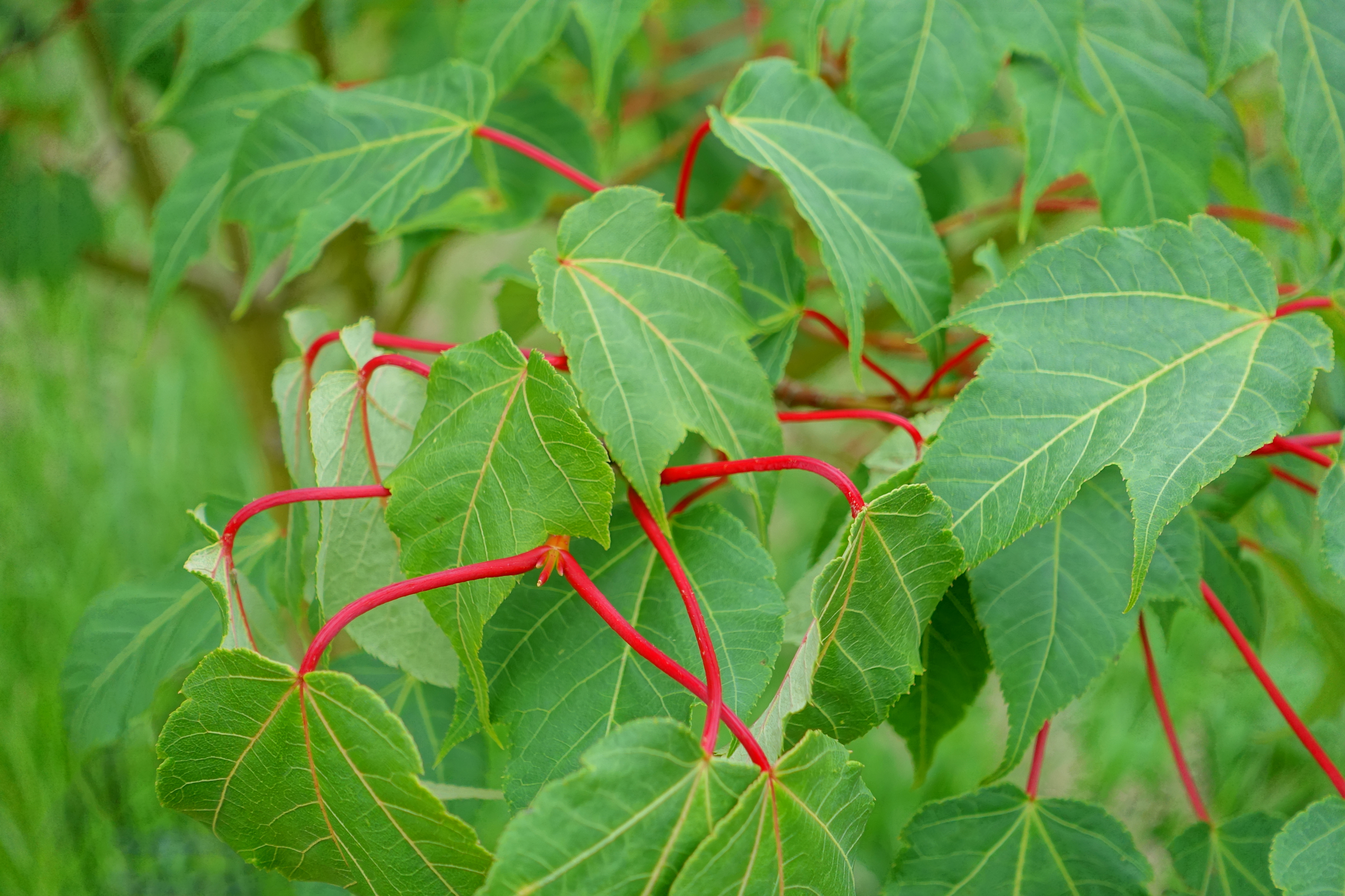 Horticultural specimen in Sir Harold Hillier Gardens - Romsey, Hampshire, England.